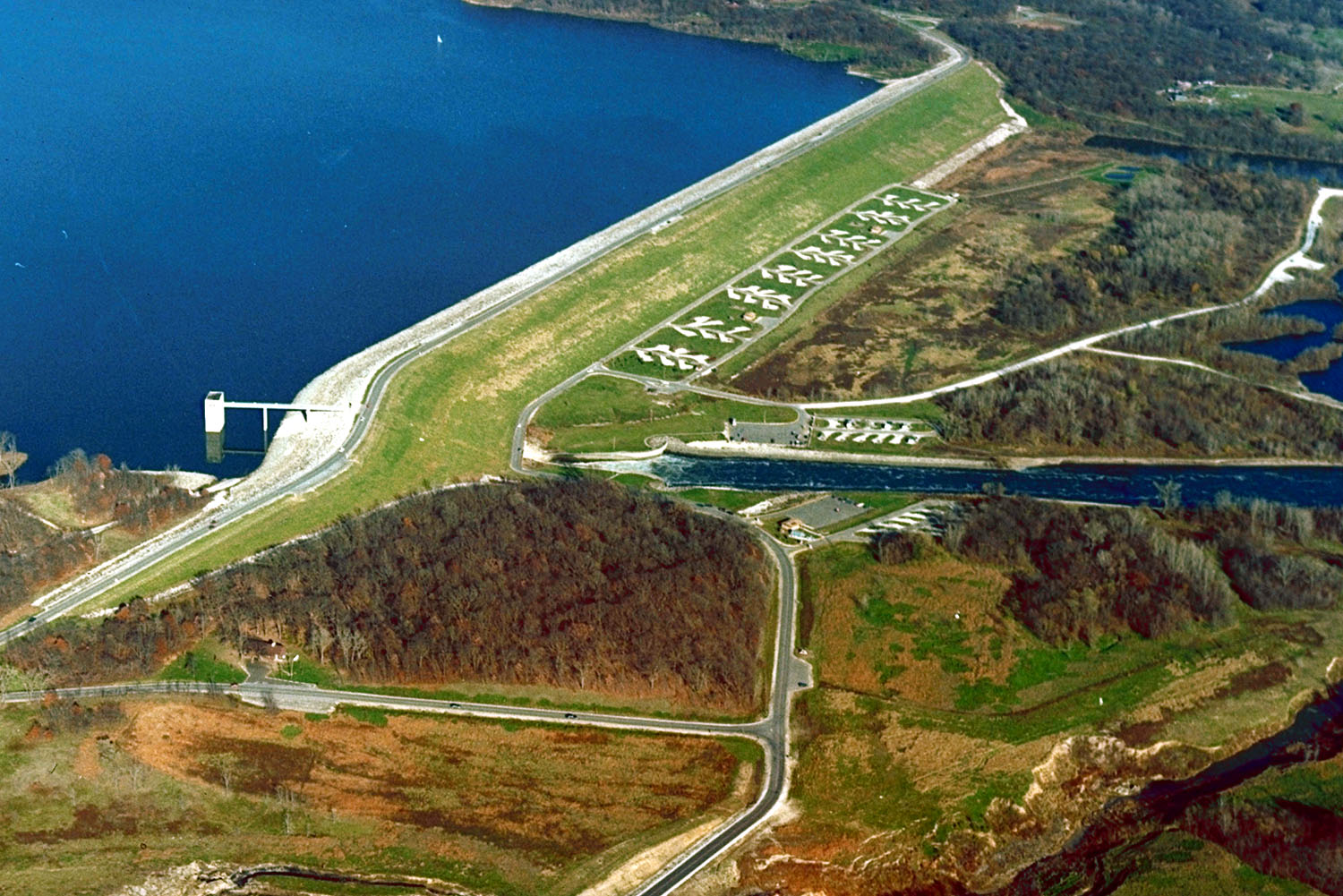 Saylorville Dam, impounding Saylorville Lake, also known as Saylorville Reservoir. The dam is located on the Des Moines River, 11 miles upriver of Des Moines, Iowa, USA. The U.S. Army Corps of Engineers constructed the dam for flood control on the Des Moines river and the Mississippi River, of which the Des Moines River is a tributary. The dam was completed in 1977.